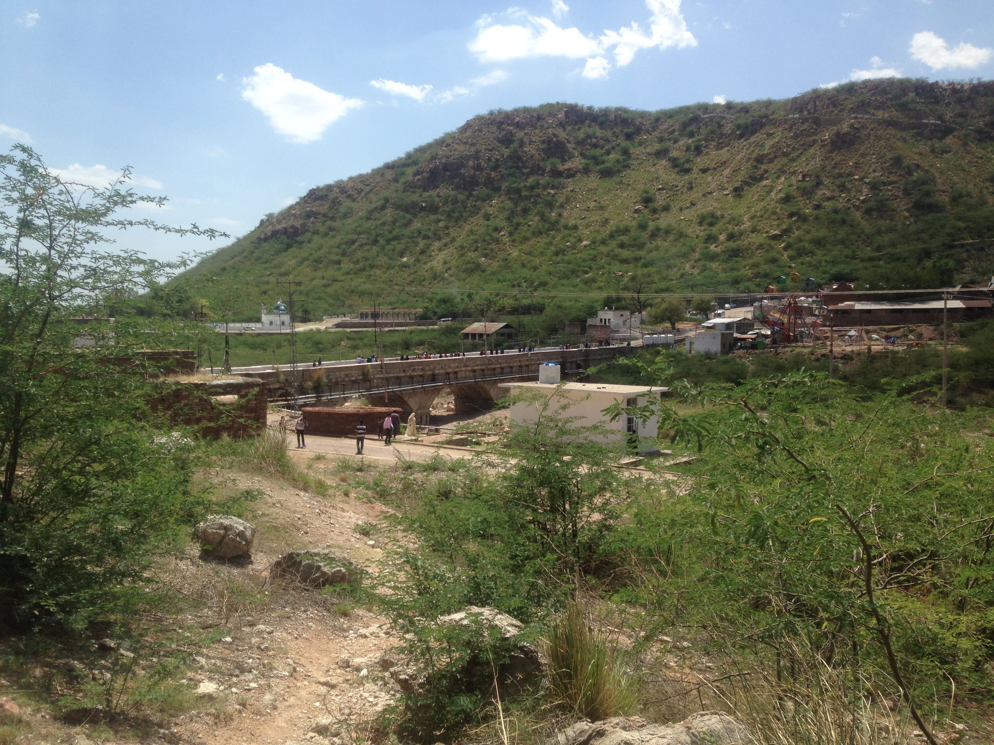 Khewra Salt Mines - Kalar Kahar - Qatas Temple